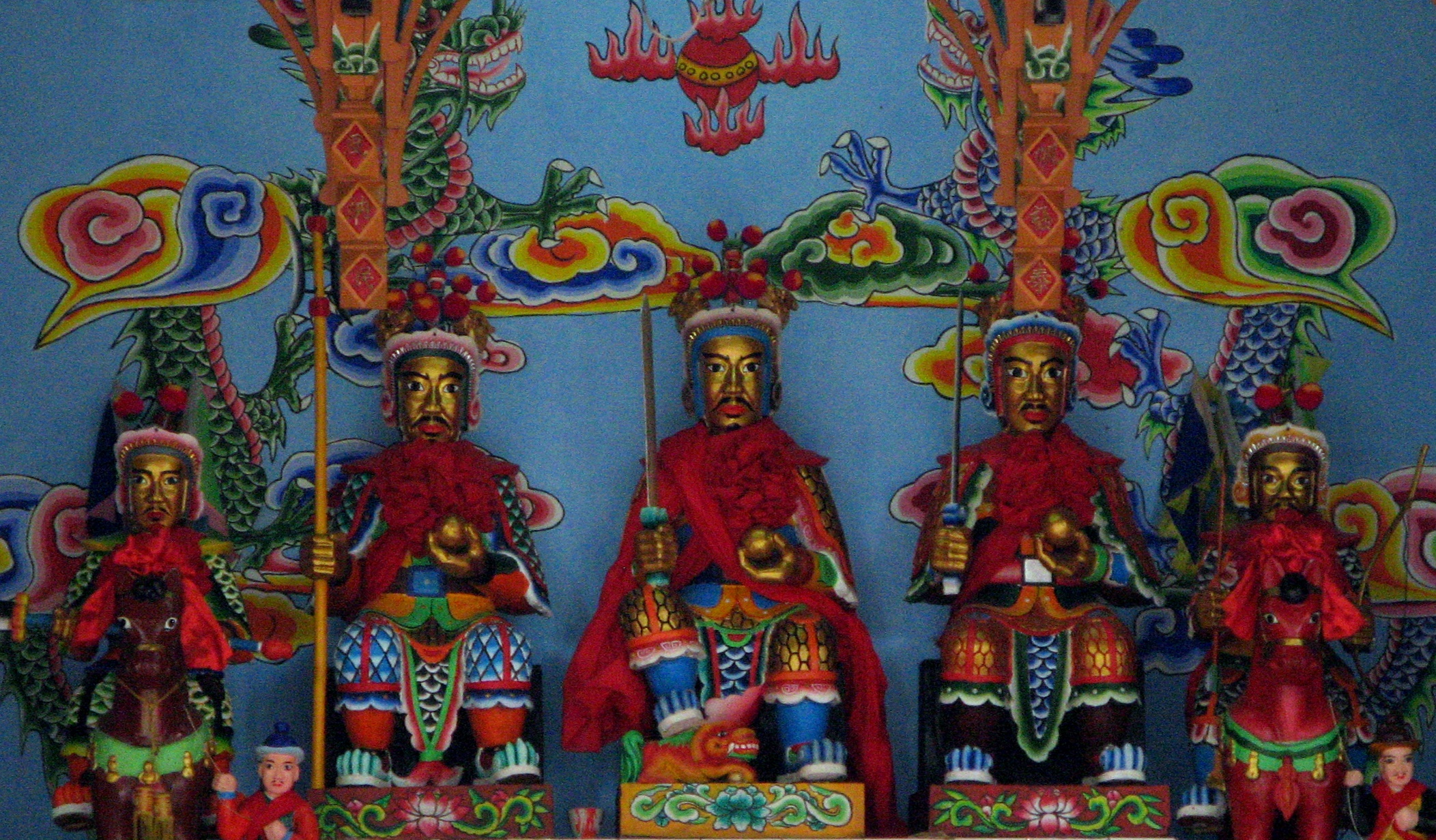 A temple dedicated to the Sanxing (Three Stars Gods) of Chinese religion, here depicted in Bai or Benzhu style (it is unclear whether it is a Bai or a Han Chinese temple). It is located at the Jinsuo Island of Dali, Yunnan.